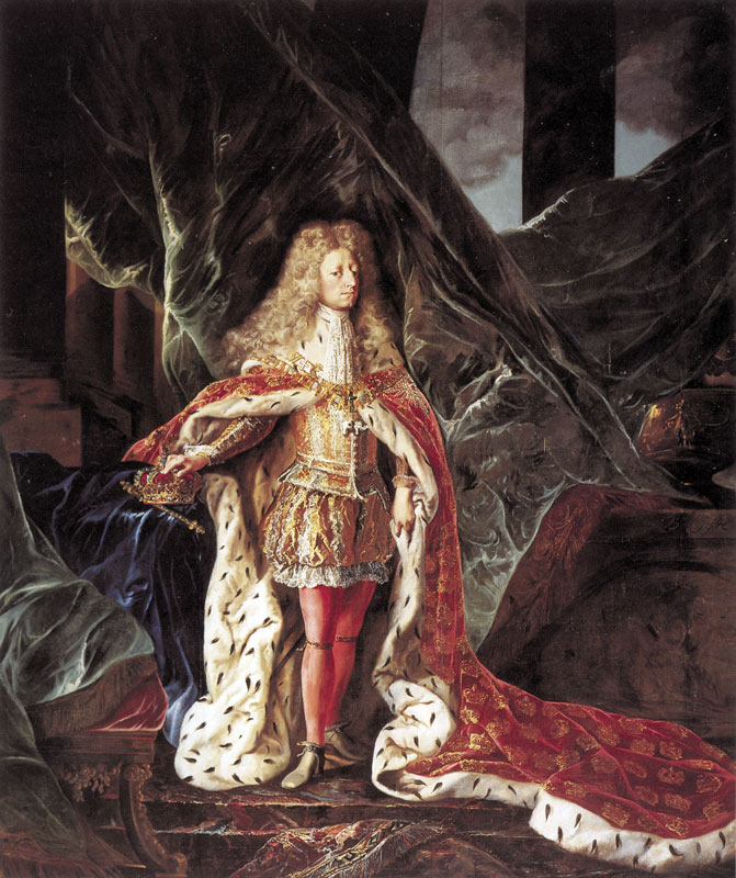 Portrait of Frederik IV of Denmark